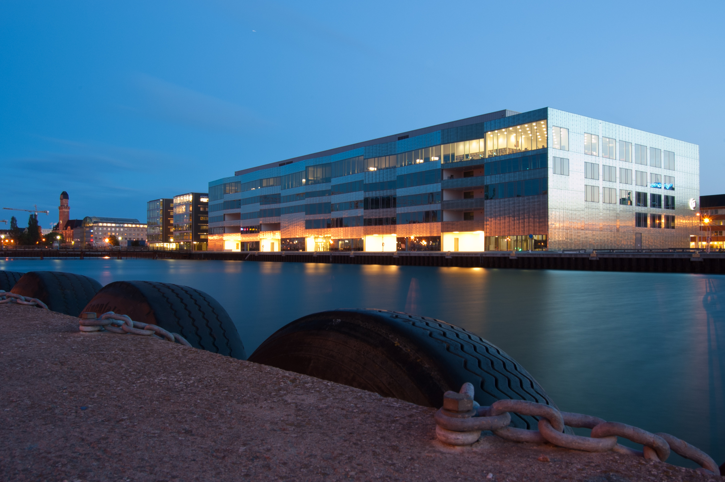 Orkanen (the Hurricane) is a Malmö University’s building by Diener and Diener that houses Teacher Education.